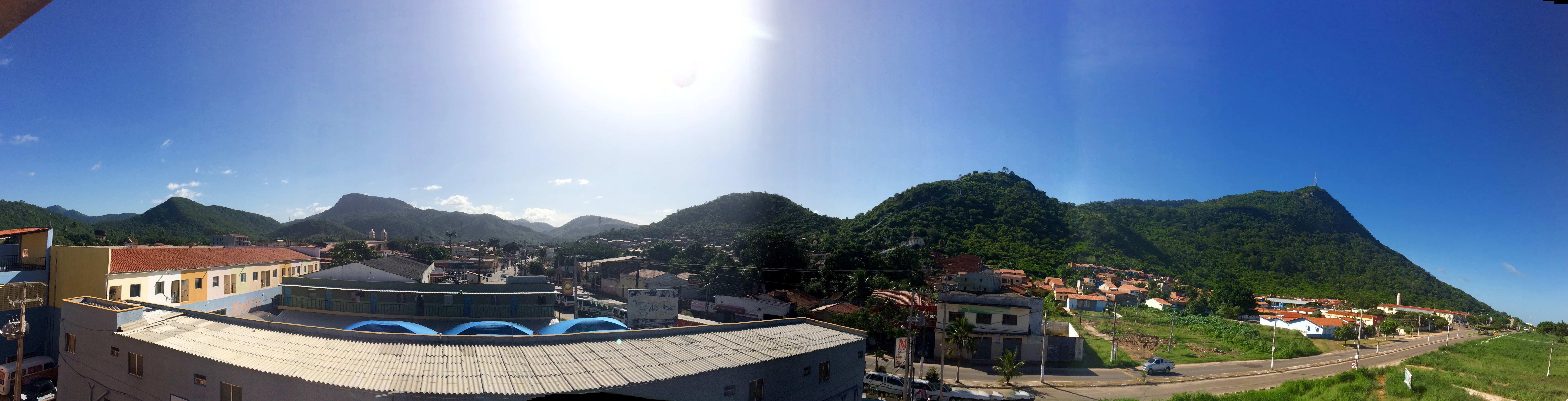 redencao oano